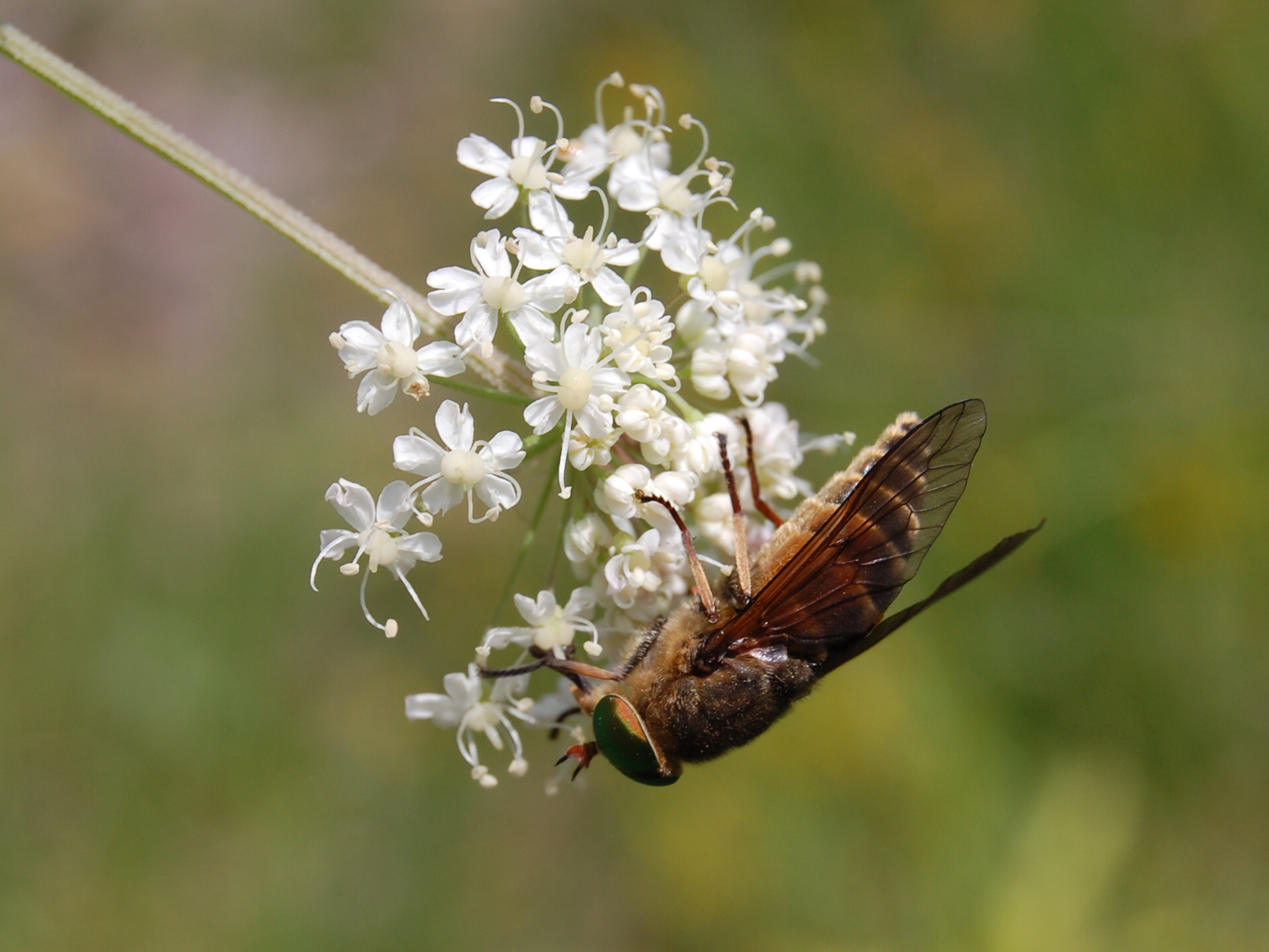 (Unknown) fly on Heracleum sp.